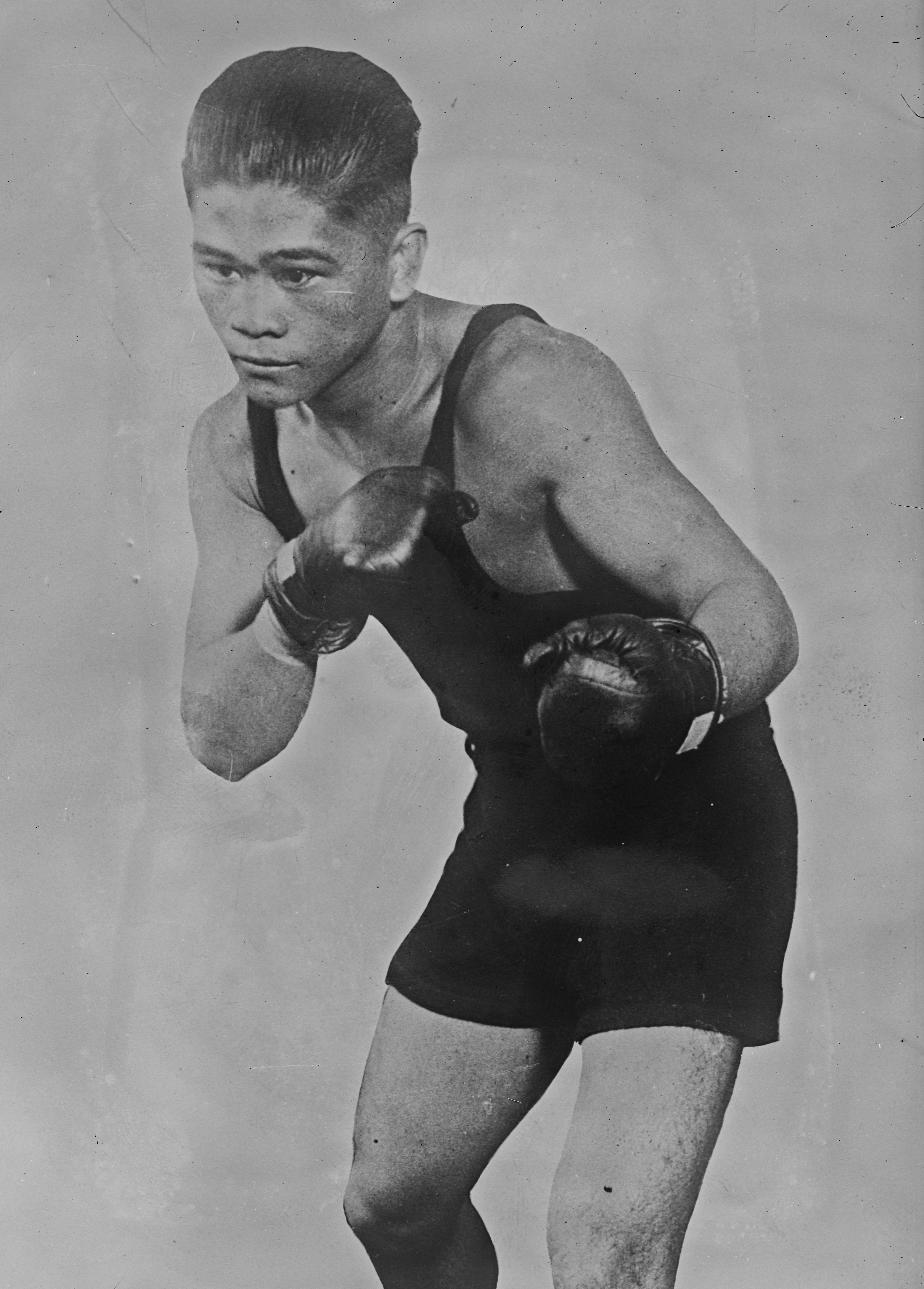 Portrait of Filipino boxer Pancho Villa : [press photograph]